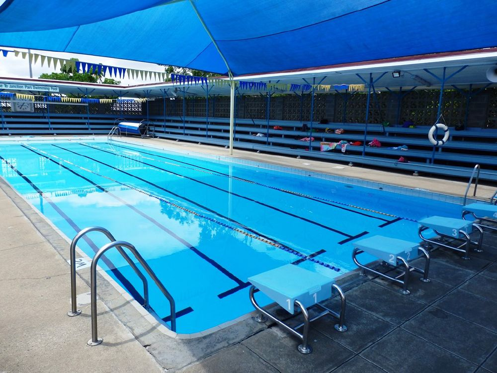 1929 pool, from NW (2015)